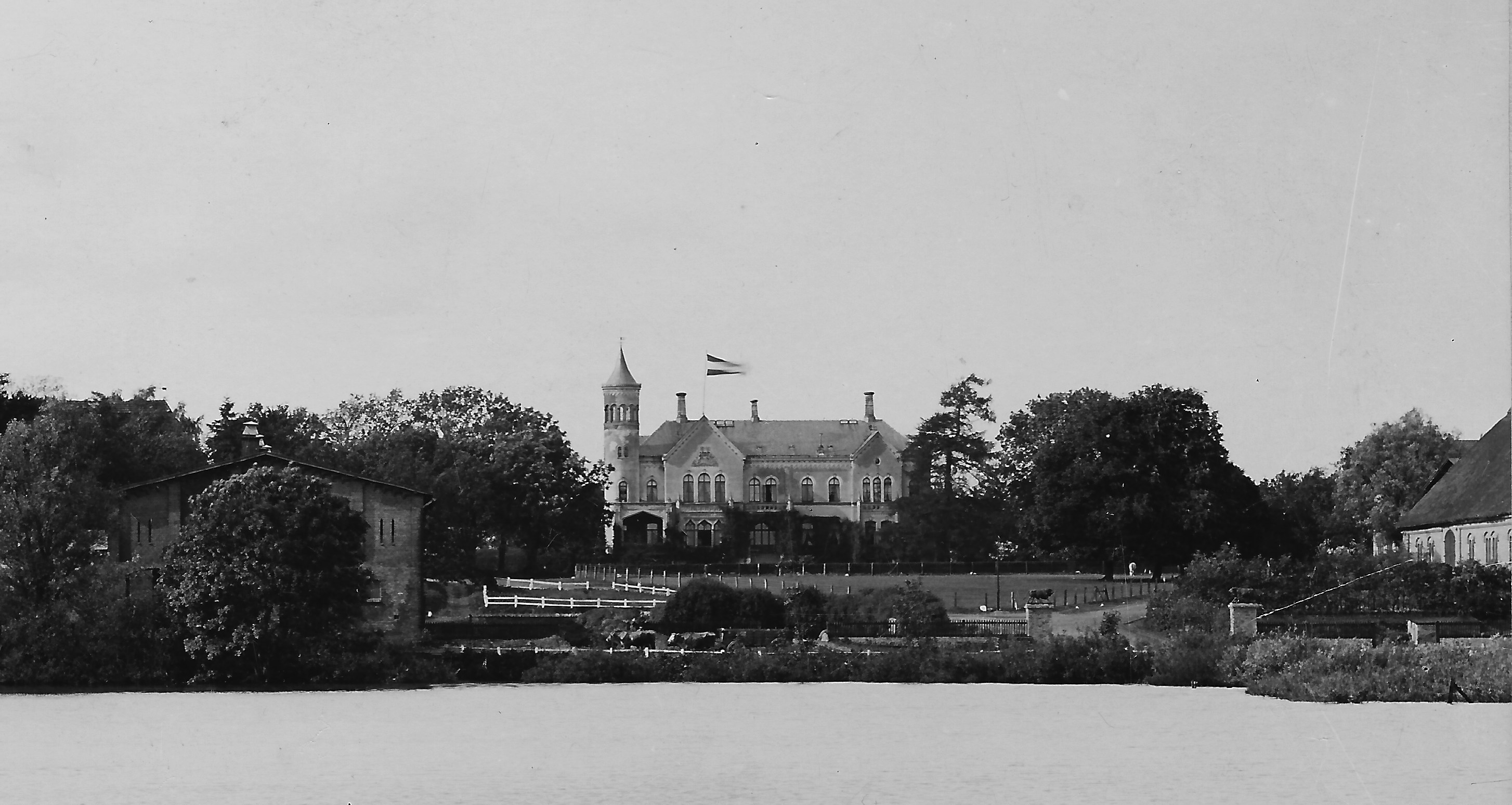 Blick vom Dorf in Richtung Gutshaus. Rechts Katen, links der alte Kuhstall. Im Hintergrund das Gutshaus. Ca. 1895